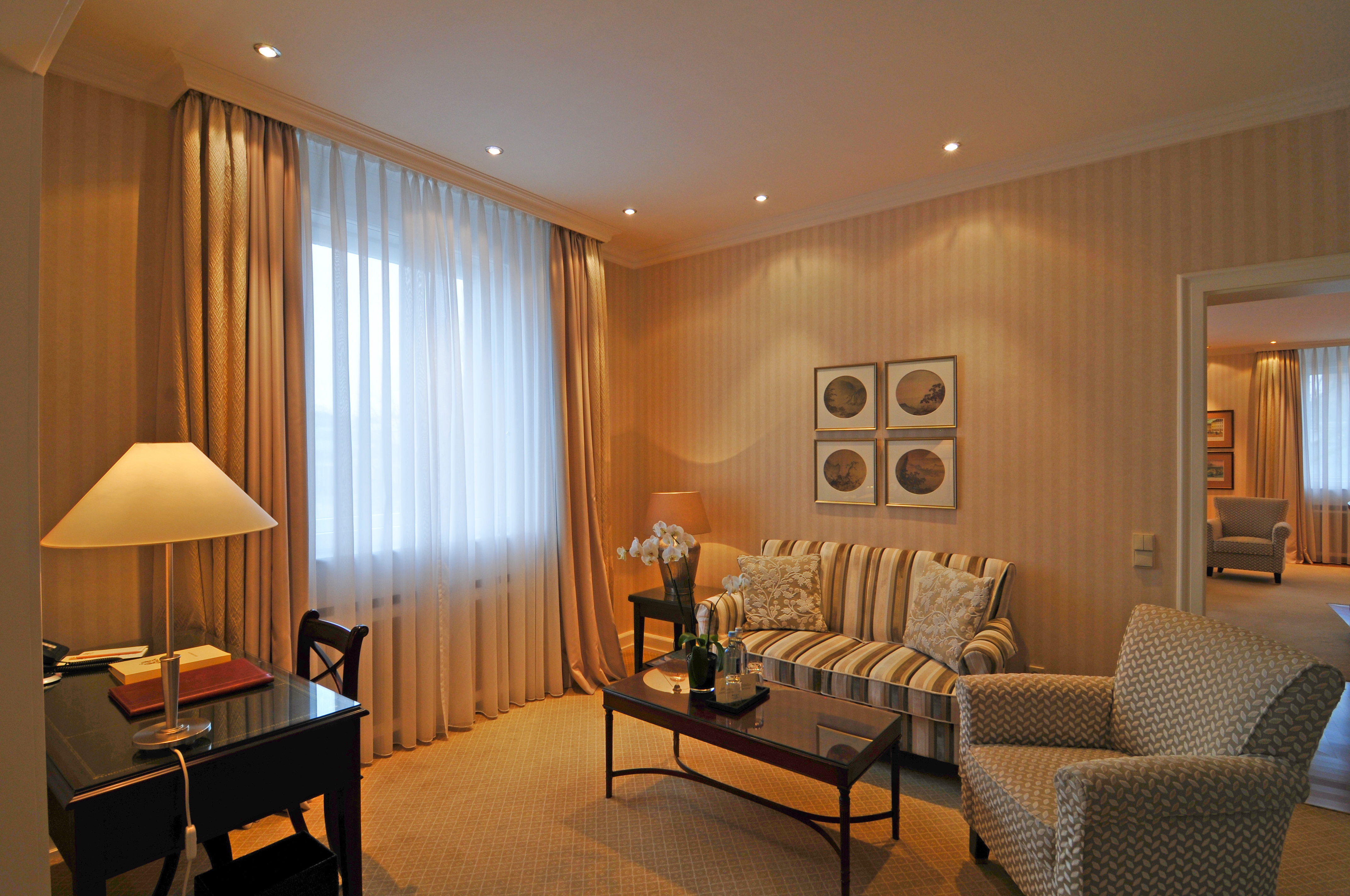 Wiesbaden, Germany, Hotel Nassauer Hof Wikipedia im Landtag – Hessen 26.–28. Februar 2013 in Wiesbaden Fragen zur Nachnutzung Wenn Sie Fragen zur Nachnutzung dieses Bildes haben, können Sie sich jederzeit gern an wenden